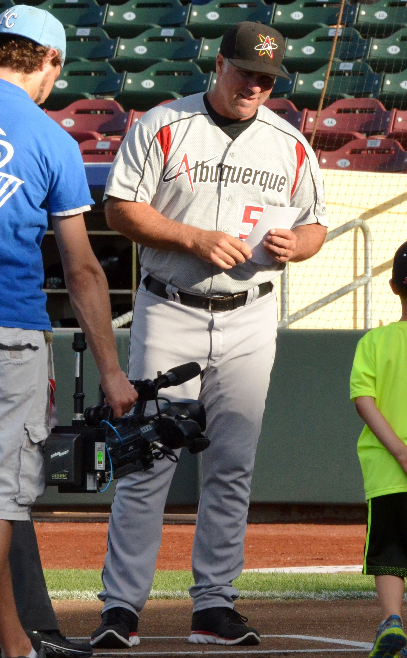 Damon Berryhill